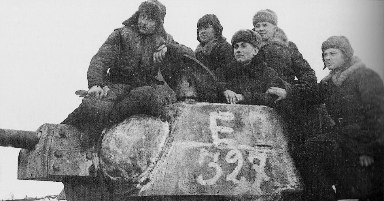 Soviet T-34 tanks in action (Operation Uranus)